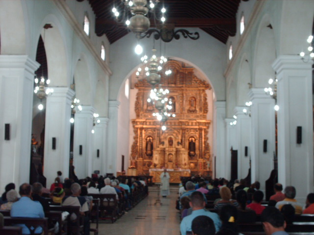 Historic centre of Caracas, "San Francisco church".